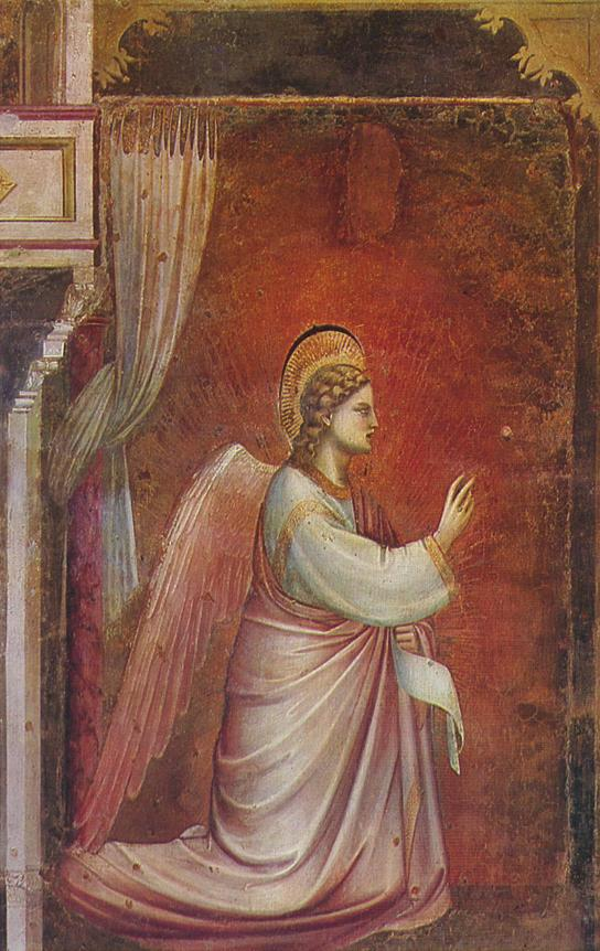 Life of the Virgin